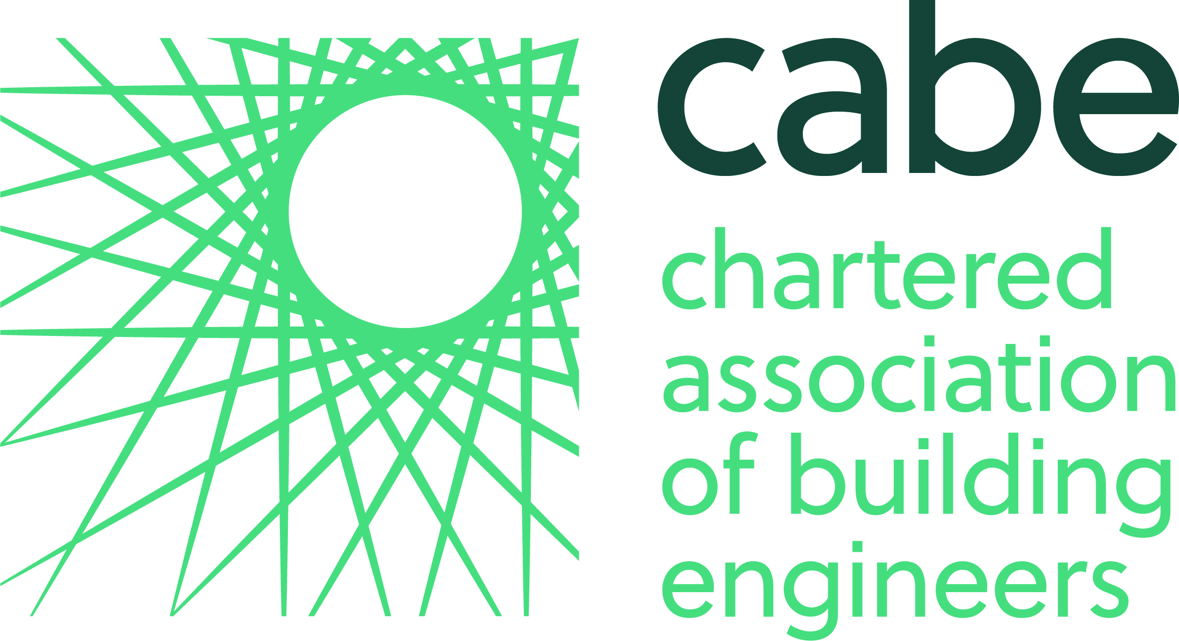 Chartered Association of Building Engineers 2019 Re-brand Logo